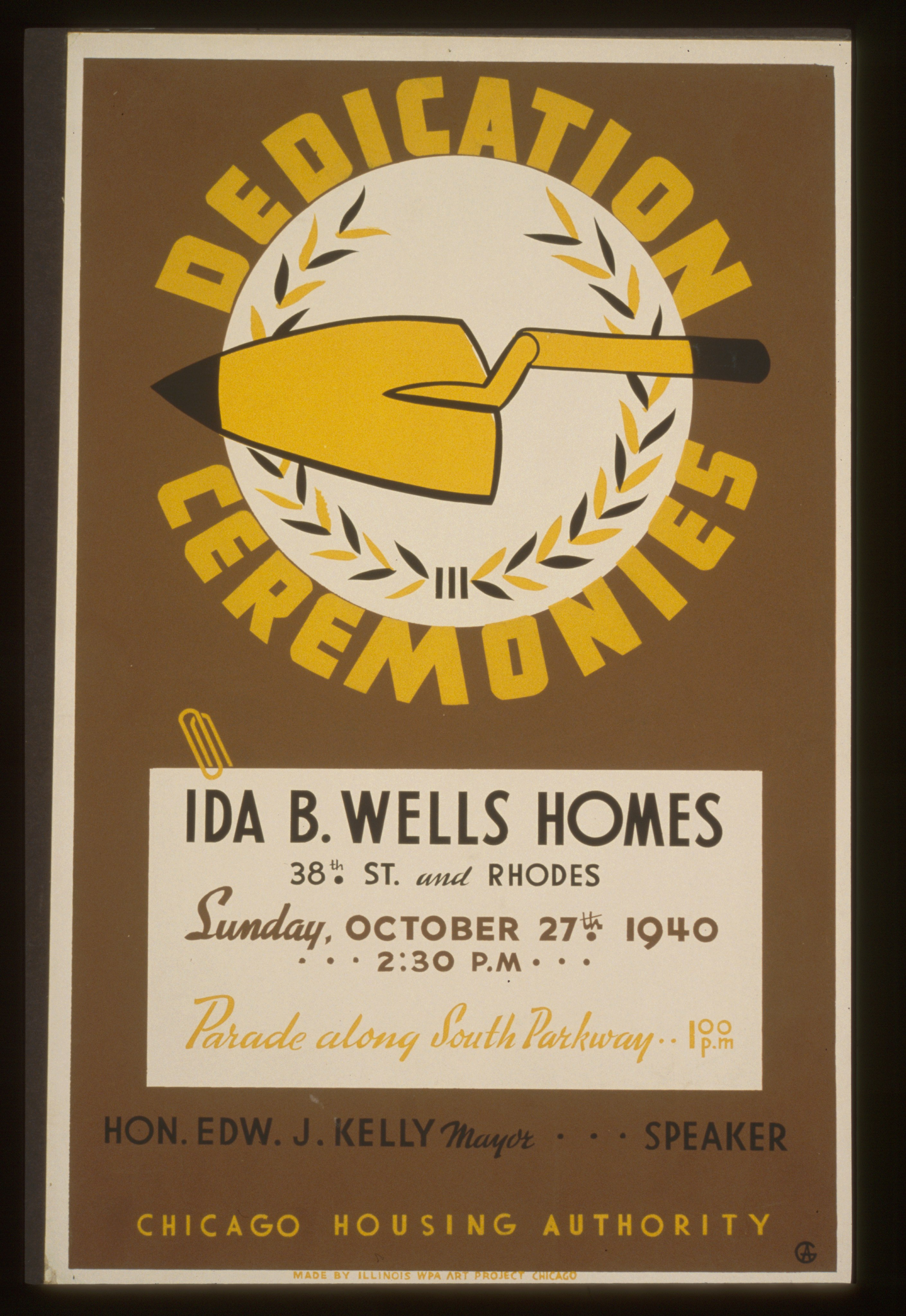 Title: Dedication ceremonies--Ida B. Wells Homes ... parade along South Parkway ... Chicago Housing Authority Abstract: Poster showing a trowel and a wreath. Physical description: 1 print on board (poster) : silkscreen, color. Notes: Work Projects Administration Poster Collection (Library of Congress).; AG.; Monogram AG.